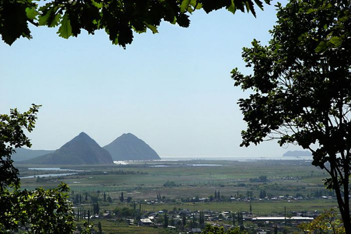 Brat & Sestra (Brother and Sister) Hills, Nakhodka, Maritime Territory, eastern Russia